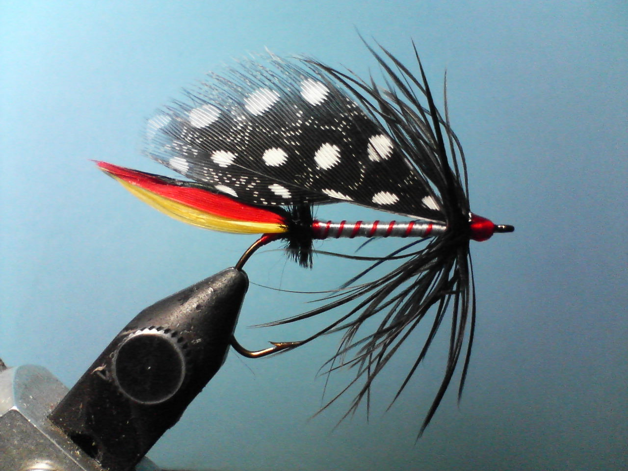 Classic Triumph Bass Fly tied by Jeremy Acre